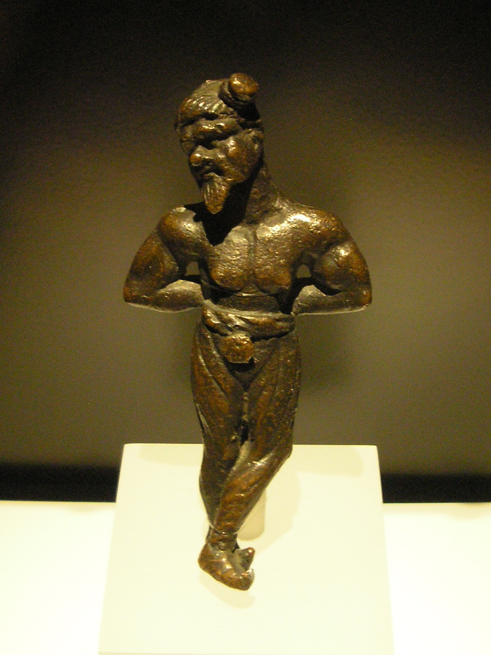 Chained Germanic, 2nd century A.D. Bronze. The prisoner wears breeches that were typical for Germanics. His hair is tied in a suebian knot. Height: 110 mm (Expression error: Missing operand for round. in).